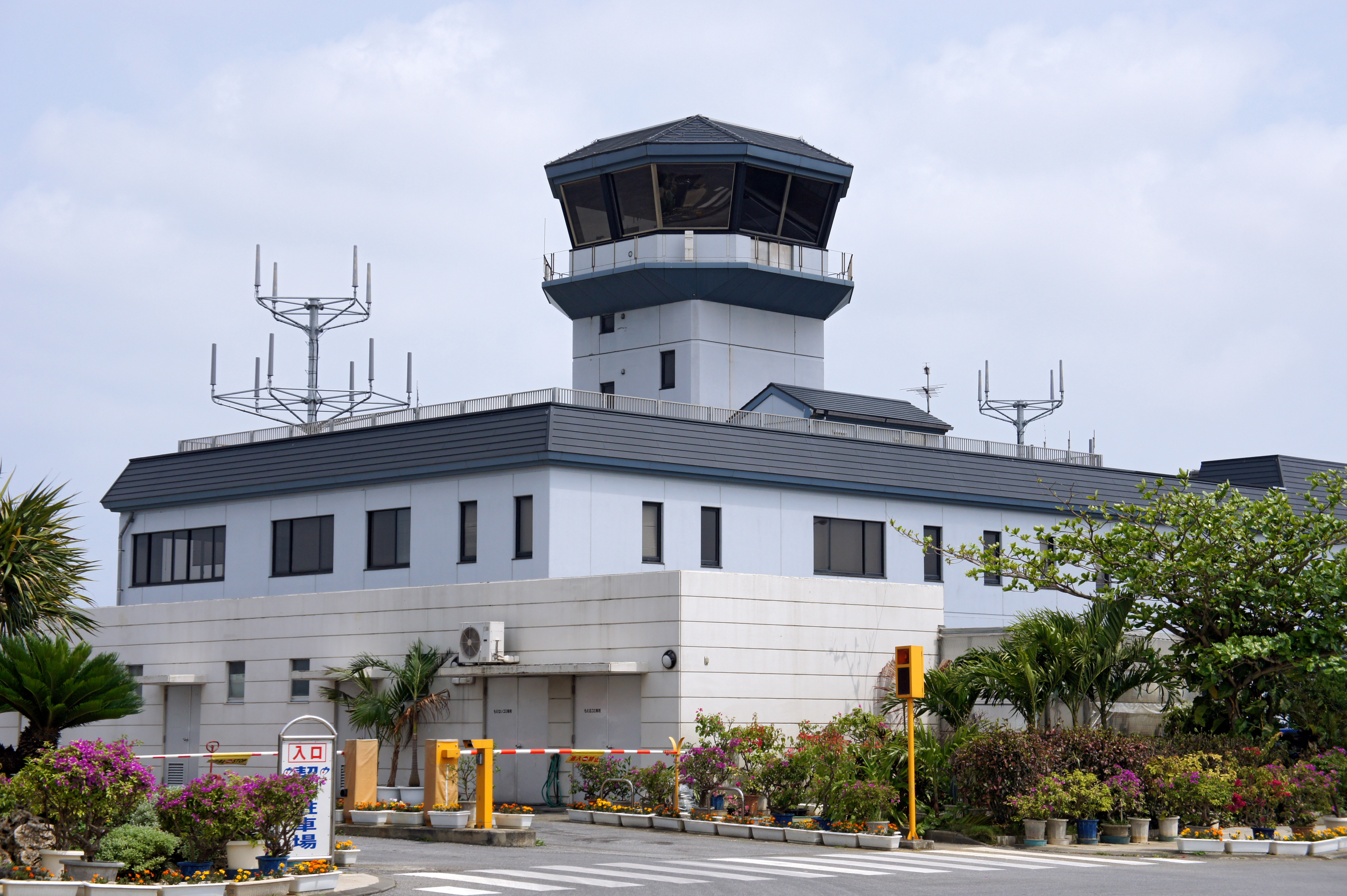 Miyako Airport in Miyakojima, Okinawa Prefecture, Japan.